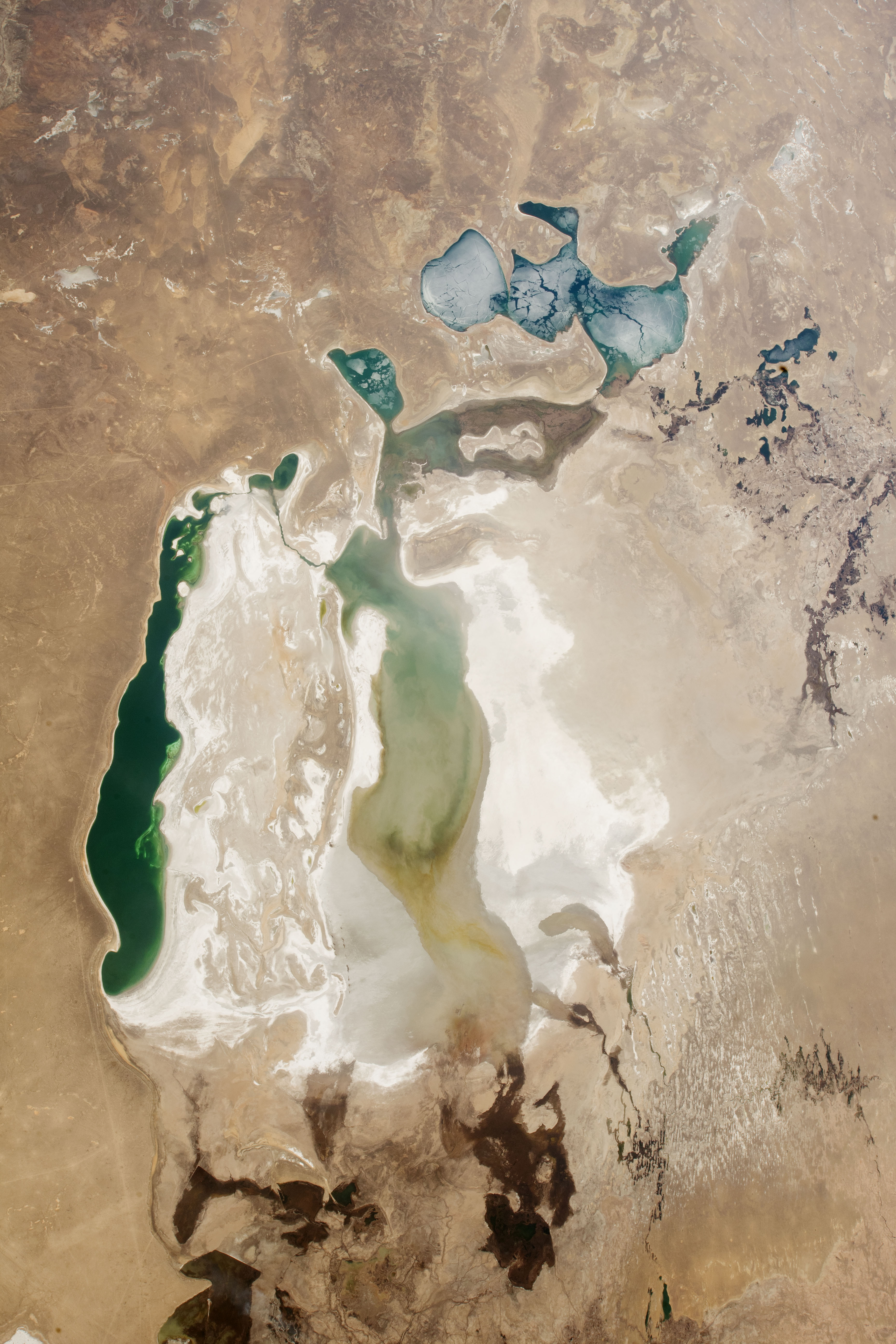 Aral sea satellite image, April 2018